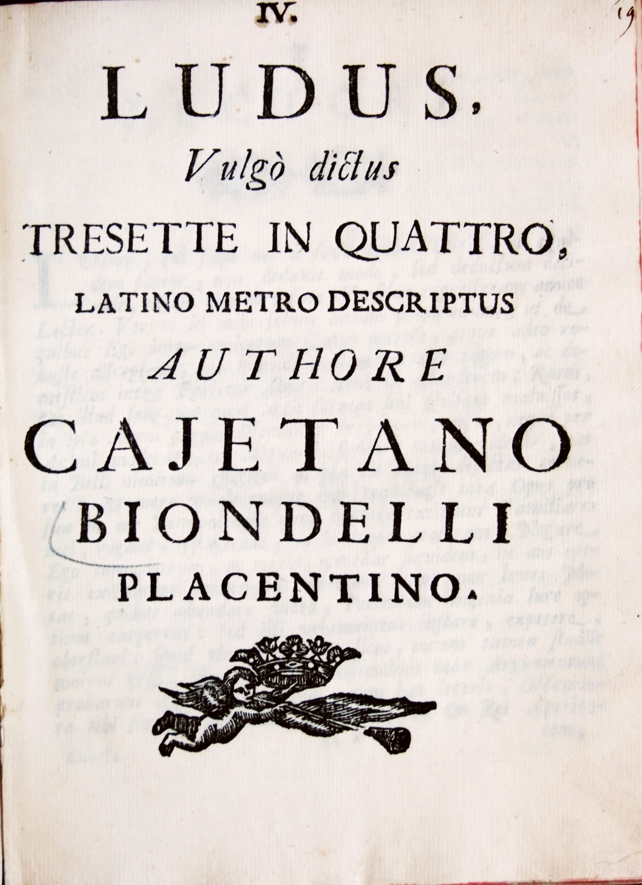 Internal frontispiece of Ludus, vulgò dictus Tresette in quattro, latino metro descriptus